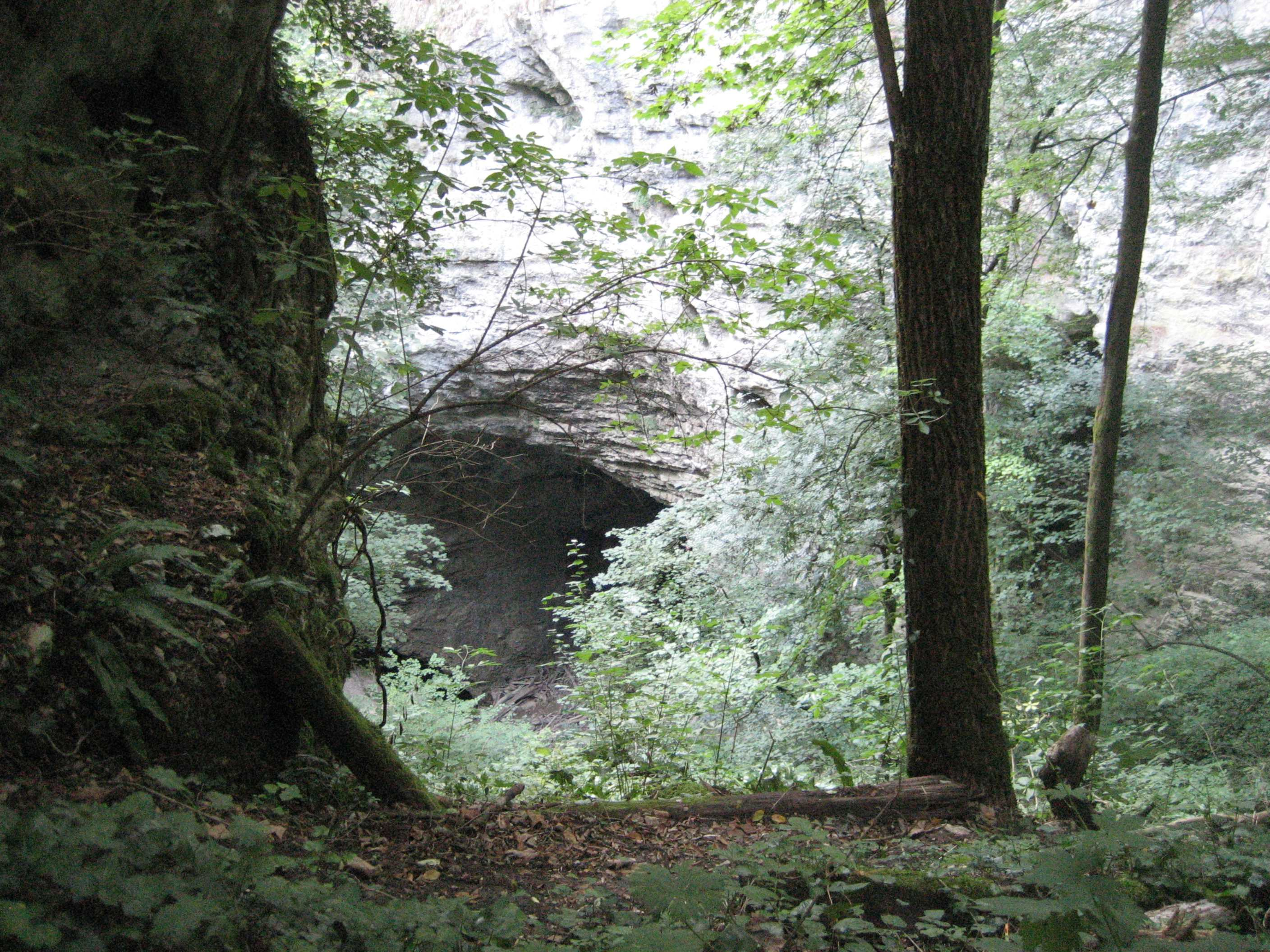 Abyss of Pazin,Northwest Croatia